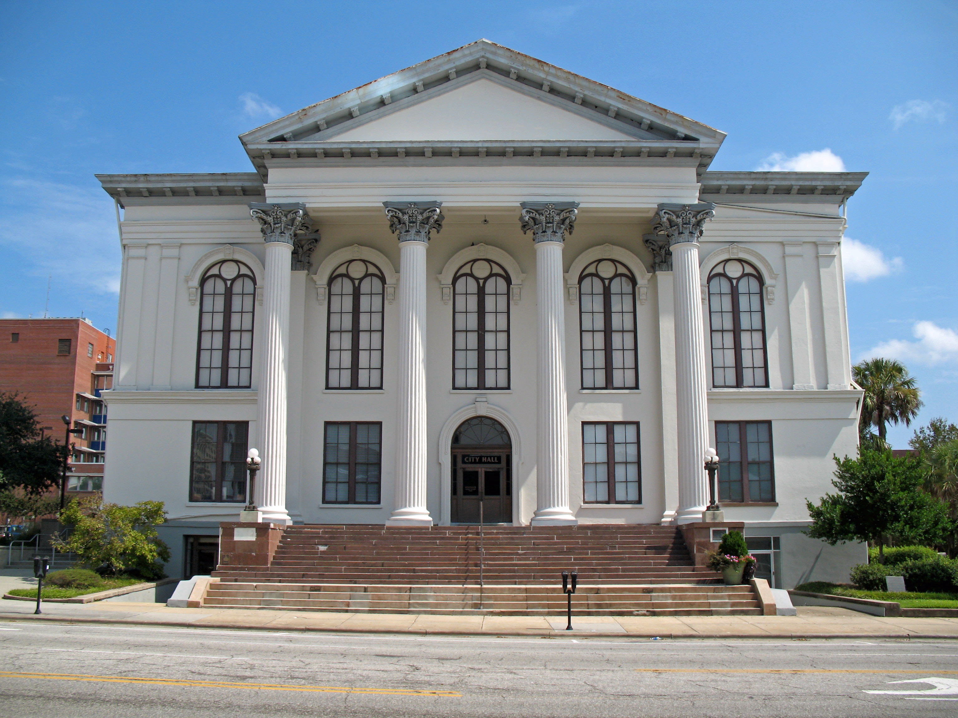 National Register of Historic Places listings in New Hanover County, North Carolina. City Hall/Thalian Hall, 100 North 3rd St, Wilmington, NC. Photographed September 20, 2009 from the west side of North 3rd St between Princess and Market St.